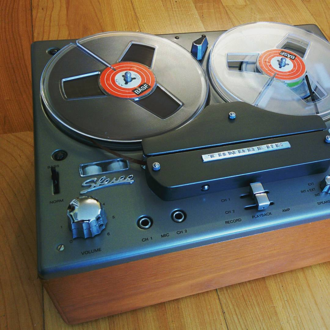 Open reel tape recorder model 74 made by Tandberg of Norway. Uses vacuum tubes for preamplifier and amplifier section. Also uses vacuum tubes for VU (sometimes called a magic eye).